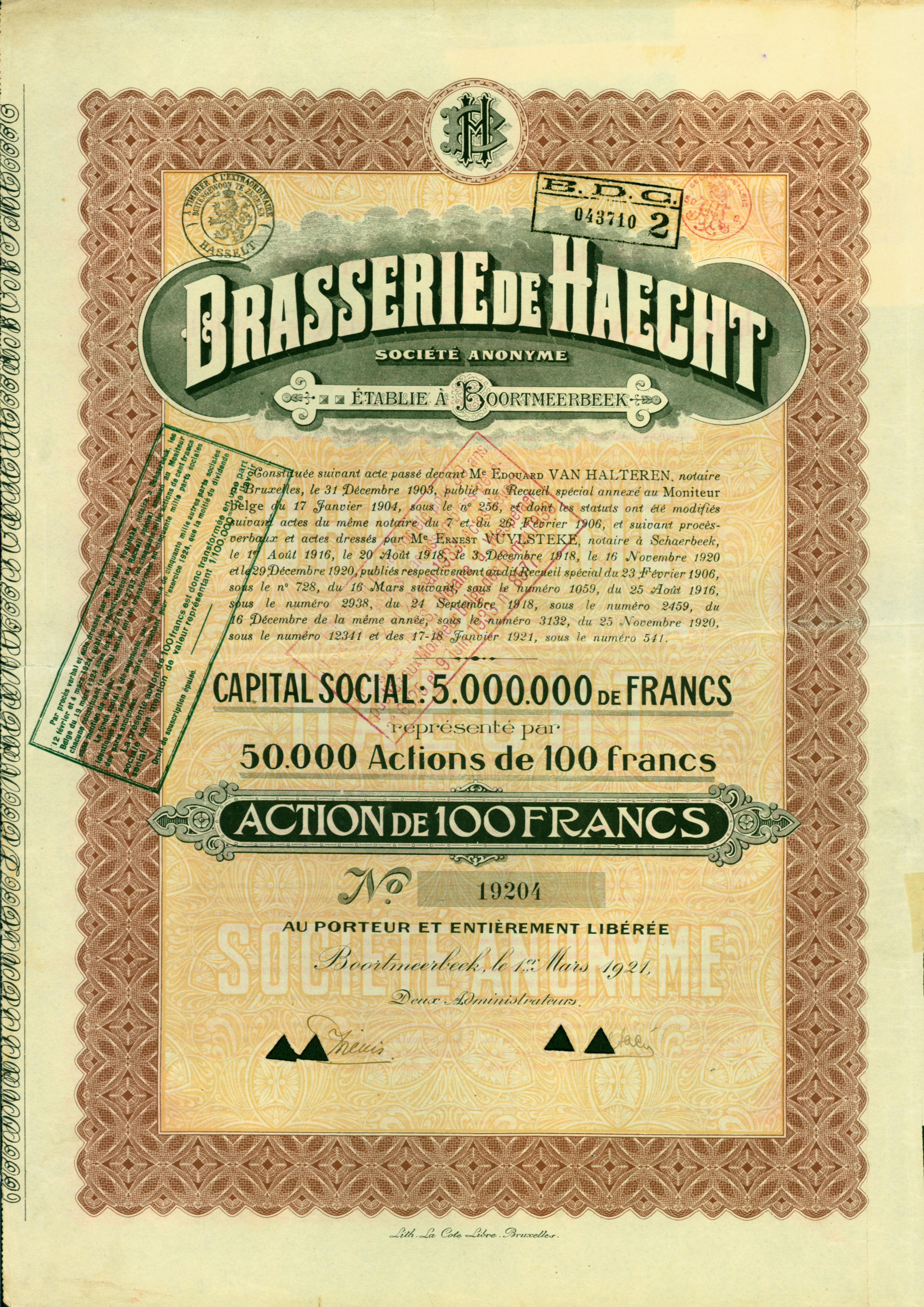 Share of the Brasserie de Haecht, issued 1. March 1921